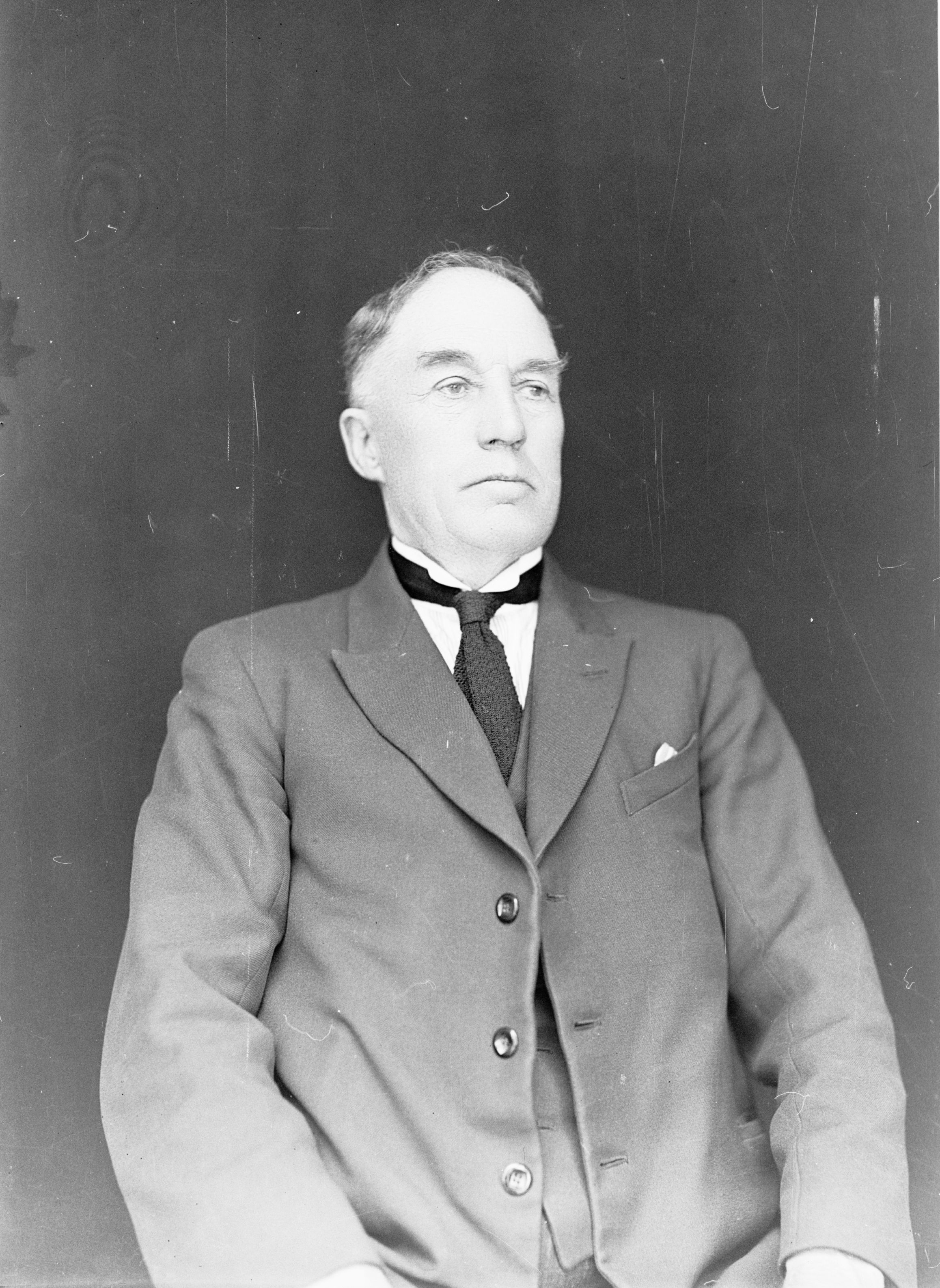 Not found in index. See also 5569 and also 3382. (G Brooks).